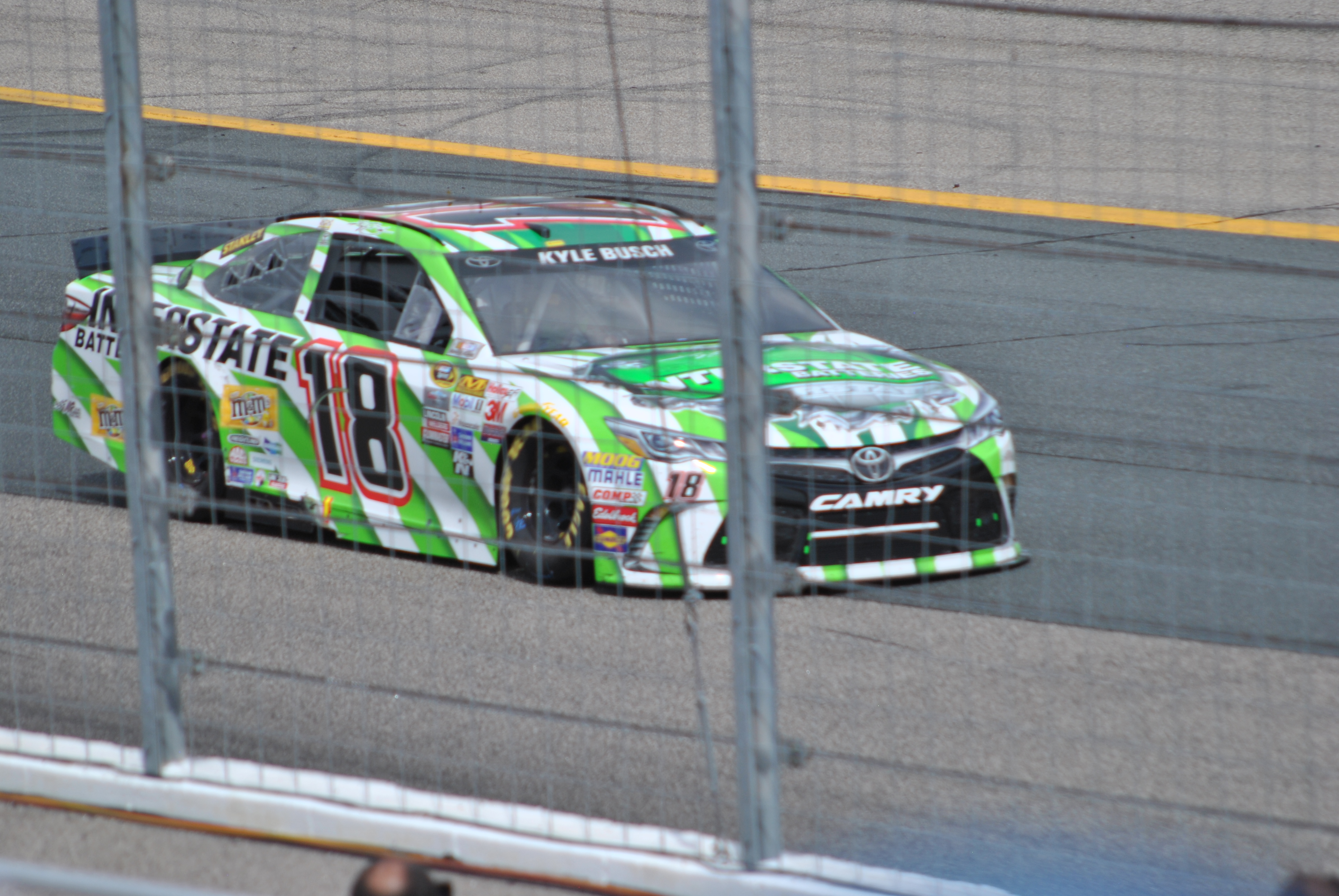 Kyle Busch in the Interstate Battery #18 Toyota Camry